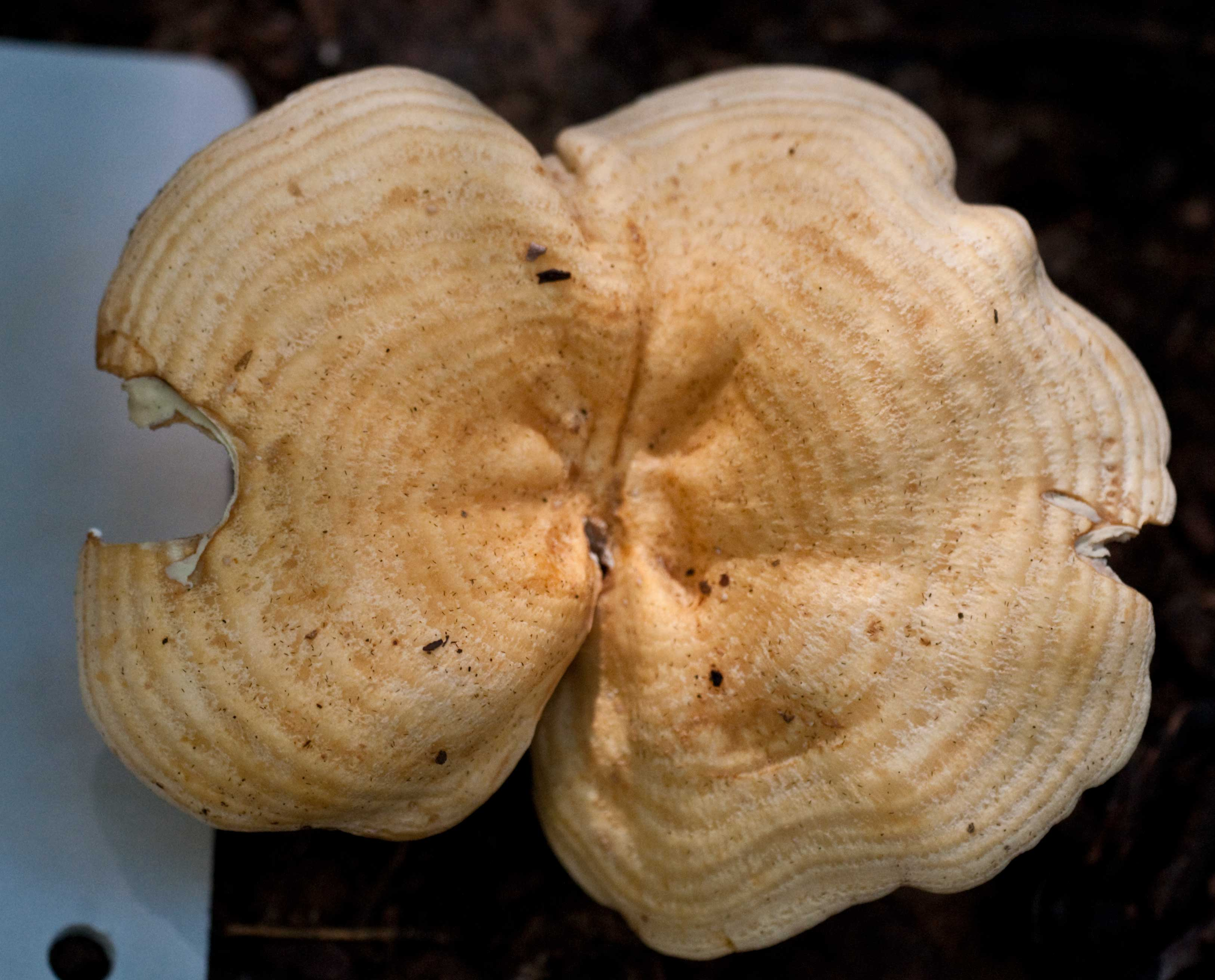 An unidentified fungal species of genus Multifurca. Specimen found in Swans Crossing State Forest, New South Wales, Australia.